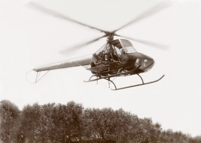 The Argentine light helicopter CK.1 (CH-3) 'Colibrí' built by Cicaré.